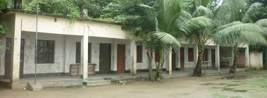 Academic Building